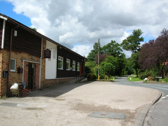 Skelton Social Club Between the A19 and the village green.